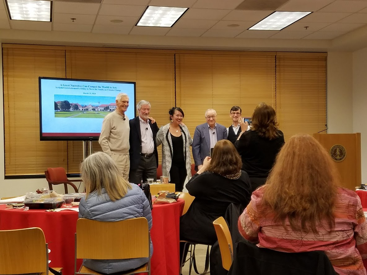 Sonny Fox (left) , Bill Ryerson (2nd left) and Albert Bandura (2nd right) speaking at a Stanford Conference about Entertainment-Education, the method pioneered by Miguel Sabido and based on Bandura's Social Learning Theory, which continues to be spread by Bill Ryerson's Population Media Center (PMC). The event was entitled "A Great Narrative Can Compel the World to Act: Scripted Entertainment’s Ability to Move the Needle on Climate Change" and organized by Debrah L. Safer, Associate Professor at Stanford University.